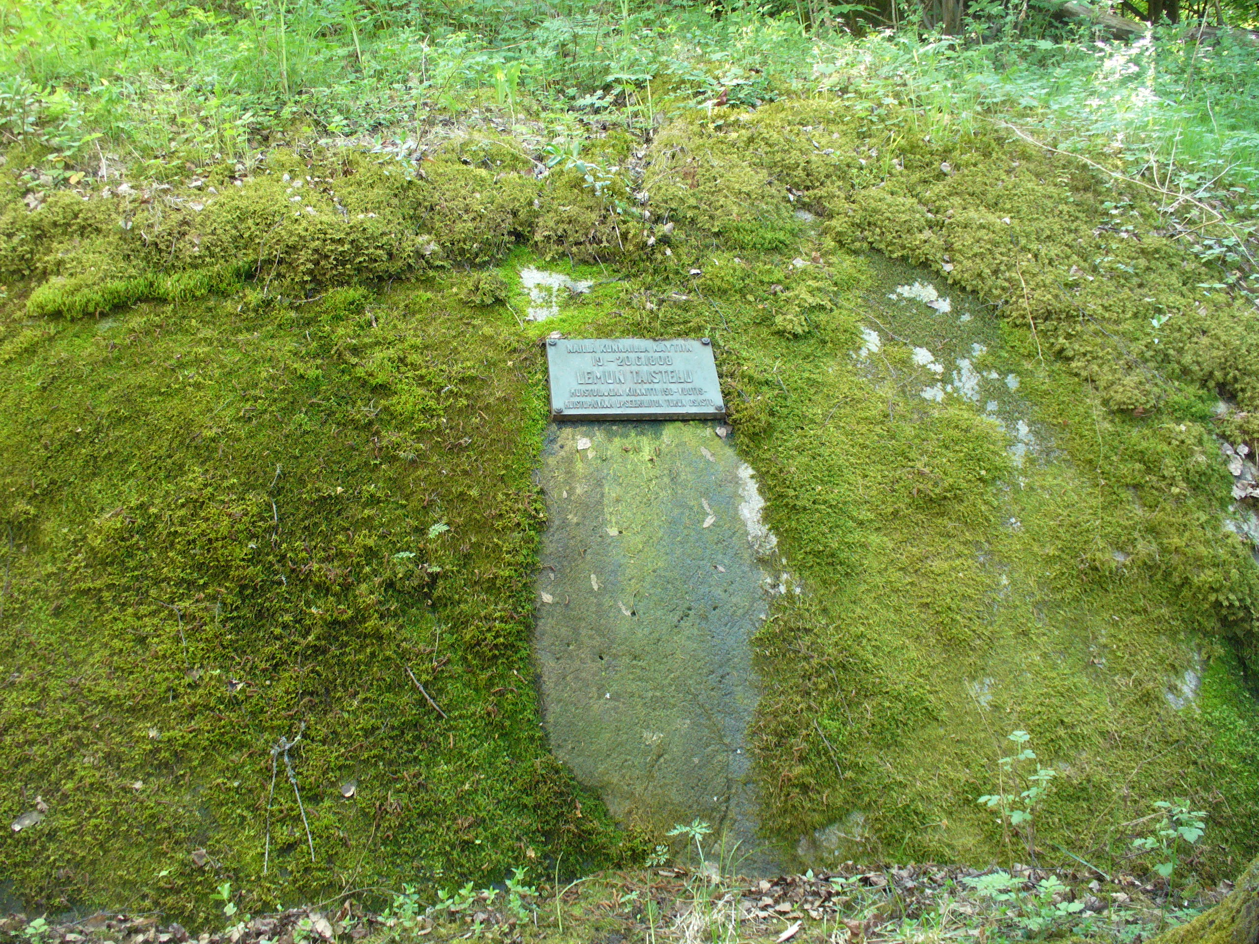 Cenotaph. The Battle of Lemo was fought during the Finnish War, between Sweden and Russia between 19–20 June 1808.